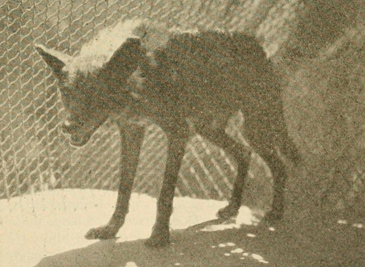 Melanistic red wolf, taken in Evangeline parish and exhibited in the Audubon Park Zoo in New Orleans.